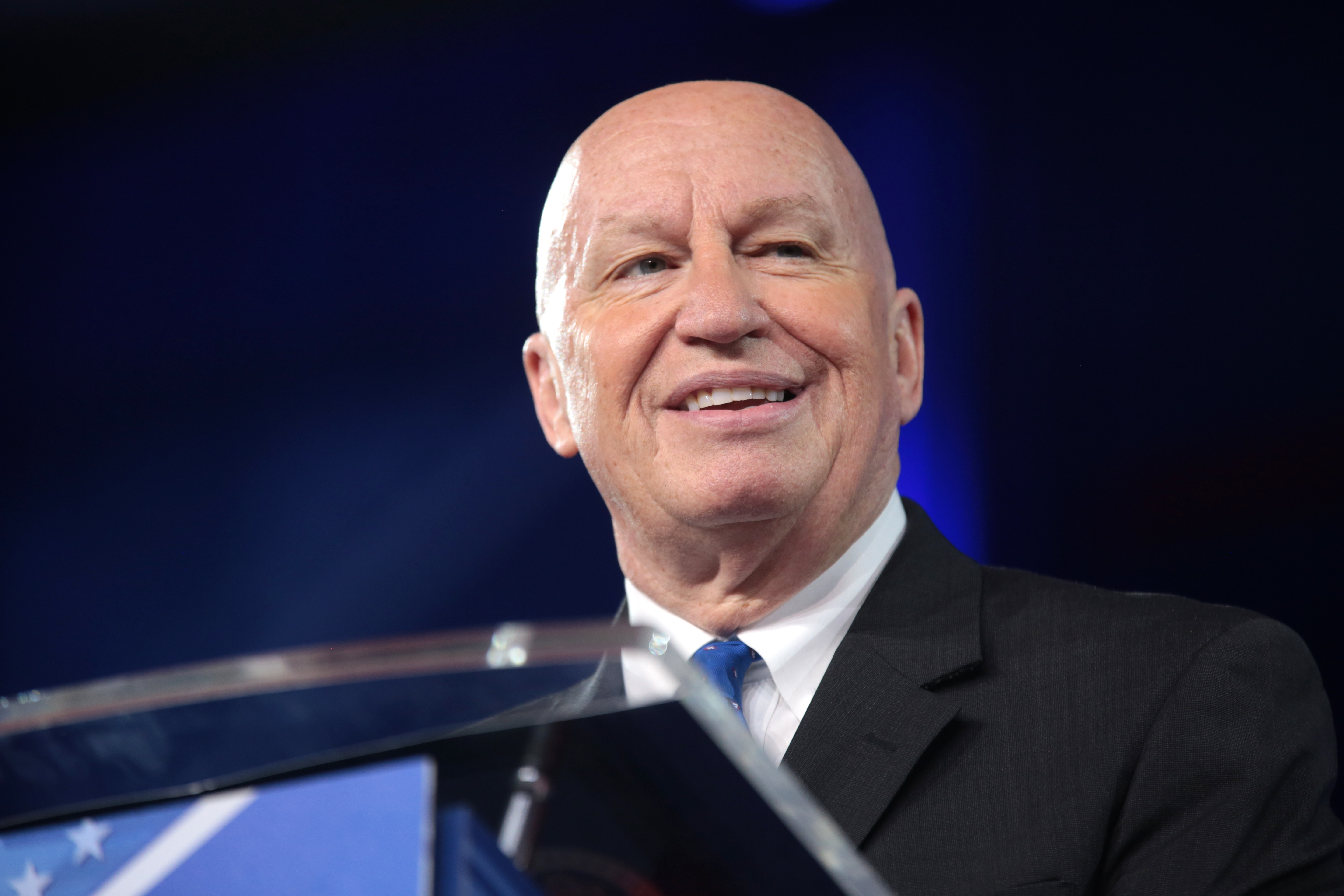 U.S. Congressman Kevin Brady of Texas speaking at the 2017 Conservative Political Action Conference (CPAC) in National Harbor, Maryland.